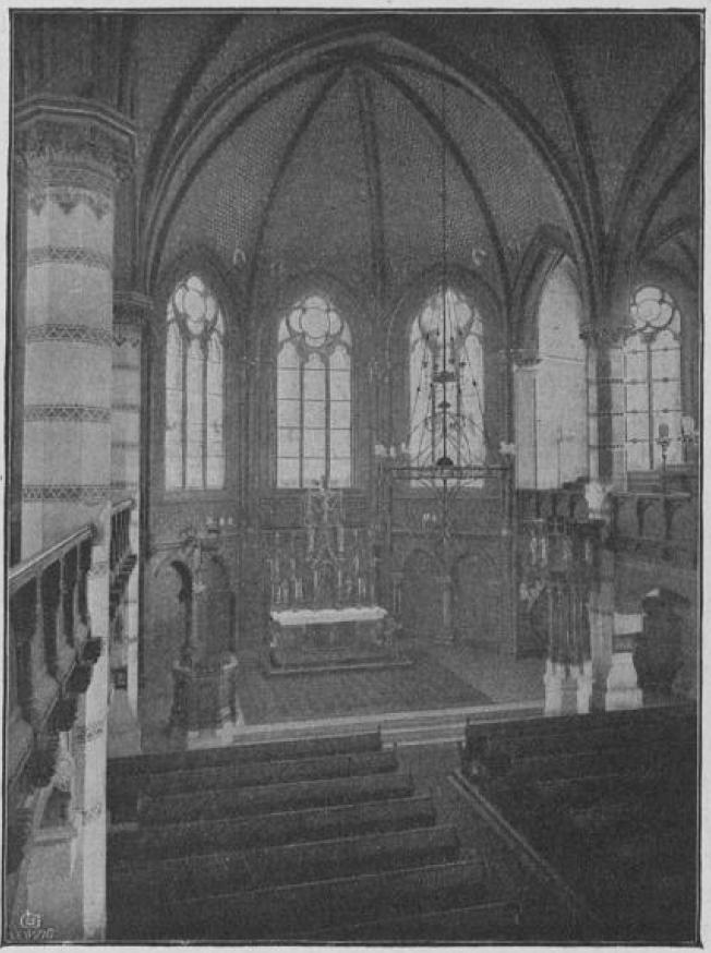 Aue, Saxony: Nikolaikirche church. View towards altar